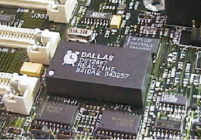 Dallas Semiconductor DS12887 Real Time Clock chip on a motherboard